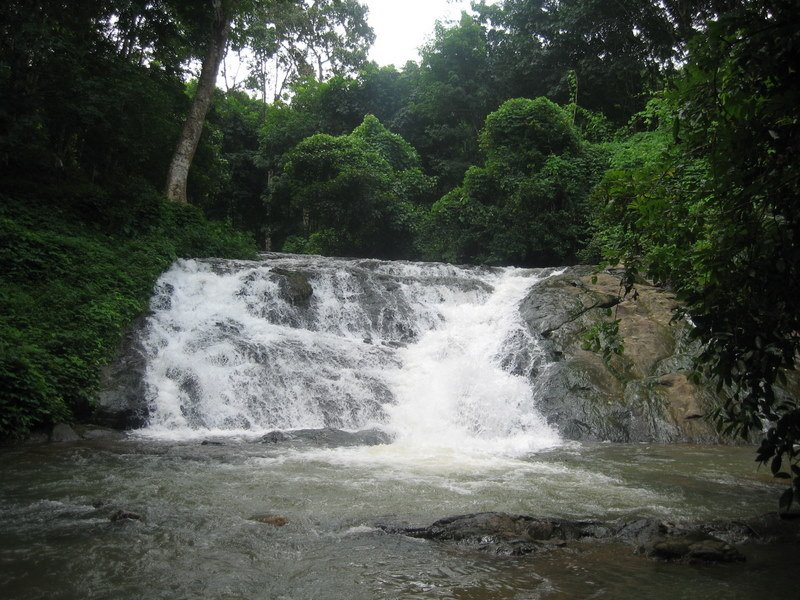 Waterfalls at Rajagiri Estate Owned by AV Thomas Group located at Koodal